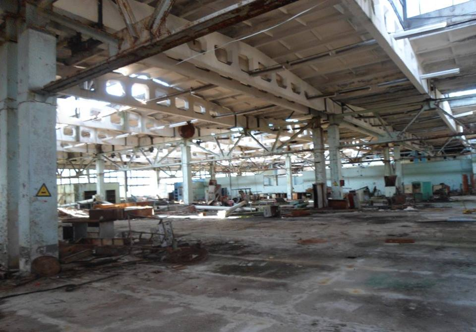 The abandoned Jupiter Factory, Pripyat, Ukraine